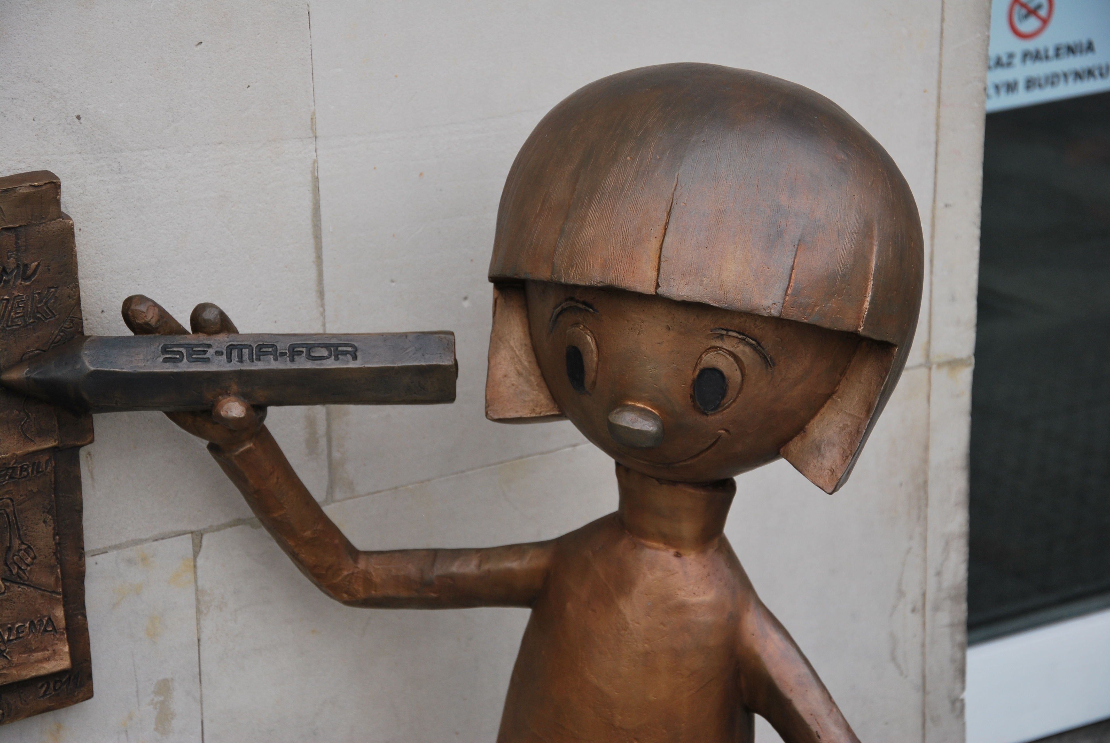 Sculpture of Piotrus from cartoon 'Zaczarowany ołówek', Łódź Culture Center